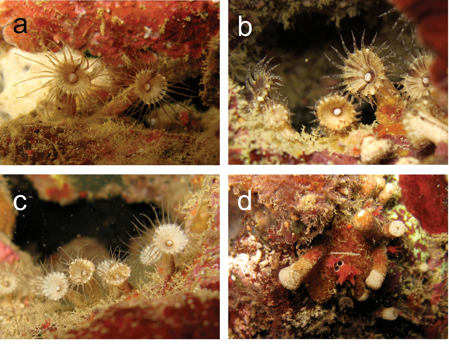 a Palythoa mizigama; single radial lines visible on oral disks. 2009, at Mizugama, Okinawa Island, Japan b P. mizigama; several radial lines visible on oral disks. c P. mizigama; with no radial lines on oral disks. d P. mizigama; closed polyps.